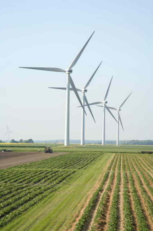 Four Wind Power Stations in the German municipality Reußenköge